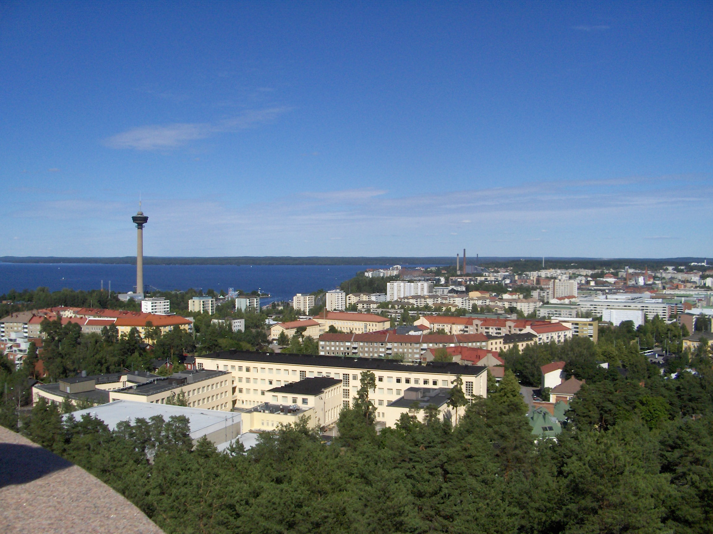 Downtown Tampere, Finland from Pyynikki observation tower